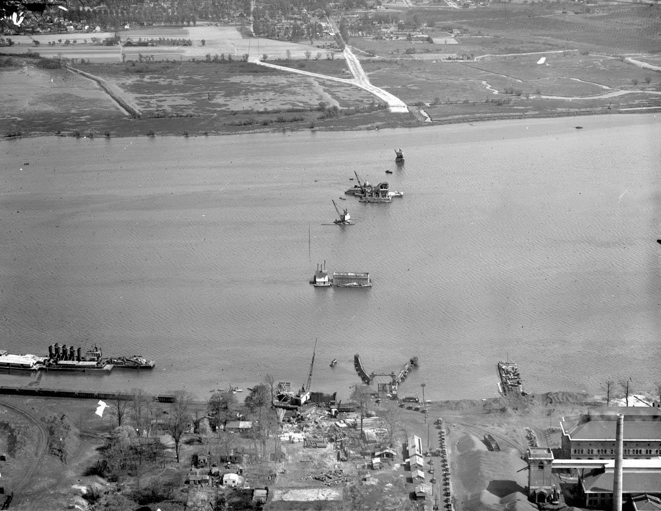 Aerial view of the construction of the Tacony-Palmyra Bridge that spans the Delaware River at Levick Street from the Tacony section of Philadelphia to Palmyra, Burlington County, New Jersey (PA/NJ Route 73). Bridge designed by architect Paul Philippe Cret and engineer Ralph Modjeski. Taken by the Aero Service Corporation, 1928. (P.8990.8496).